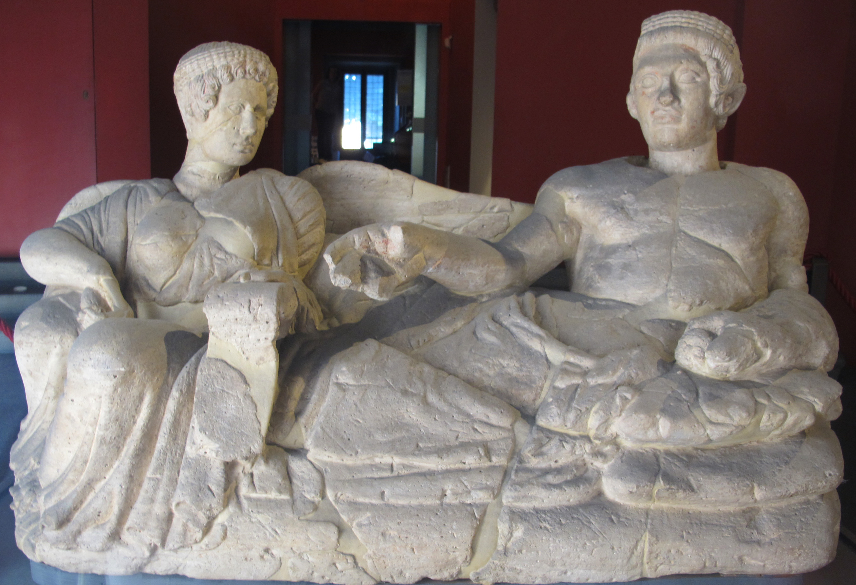 Etruscan cinerary statue with banqueting man and a female death demon, probably Vanth.